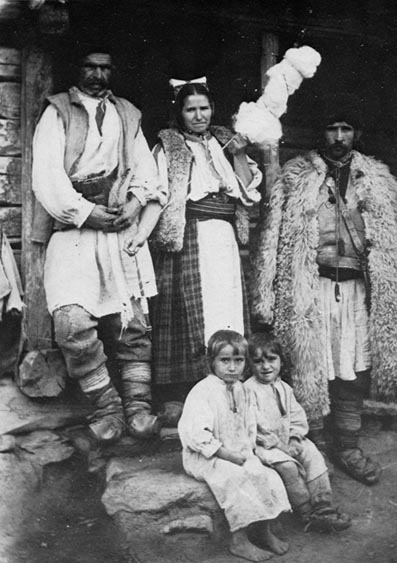 Romanian (Pădurean) family in Meria village, the Poiana Ruscă mountains, Hunedoara County, then Hungary, now Romania